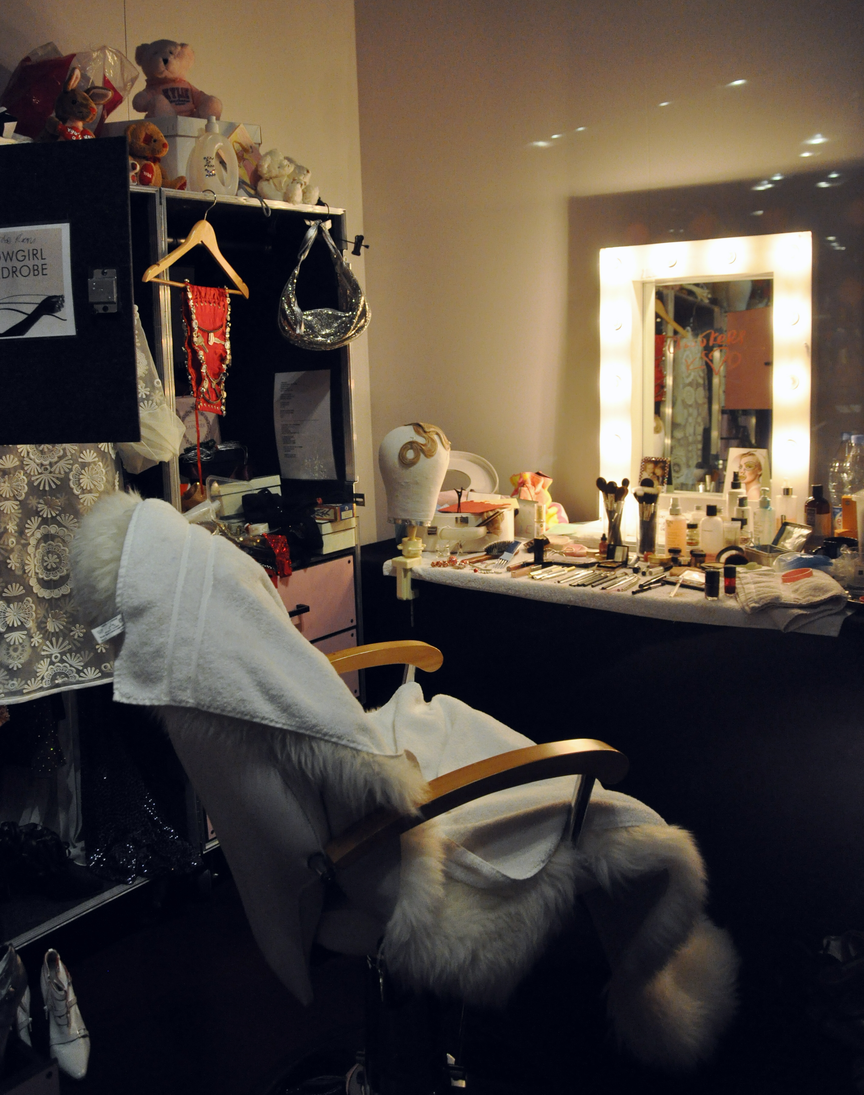 Kylie Minogue's dressing room (exact replica) for the 2007 tour „Showgirl: Homecoming“ Victoria and Albert Museum, London